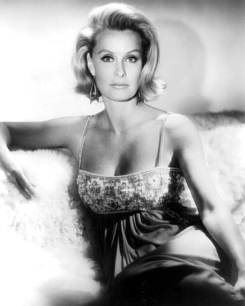 Photo of Dina Merrill.